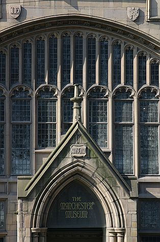 Manchester Museum, University of Manchester by Nick Higham. Source Nick Higham Category:University of Manchester